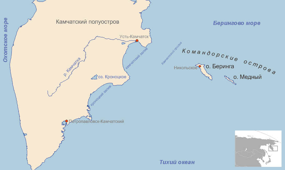 Map of Commander Islands and Southern Kamchatka (in russian)